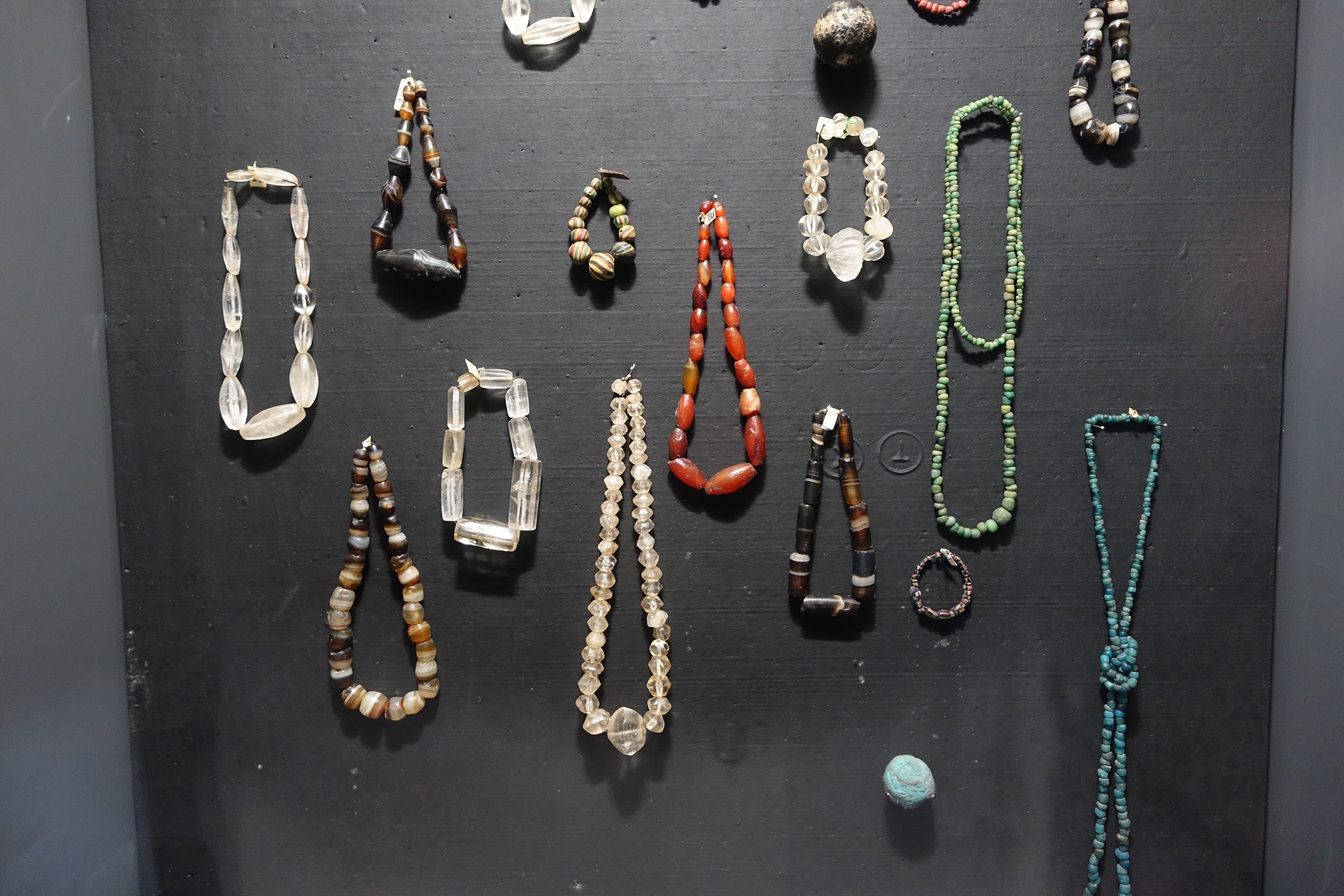 Exhibit in the Museum of Vietnamese History, Ho Chi Minh City, Vietnam. This work is old enough so that it is in the public domain.